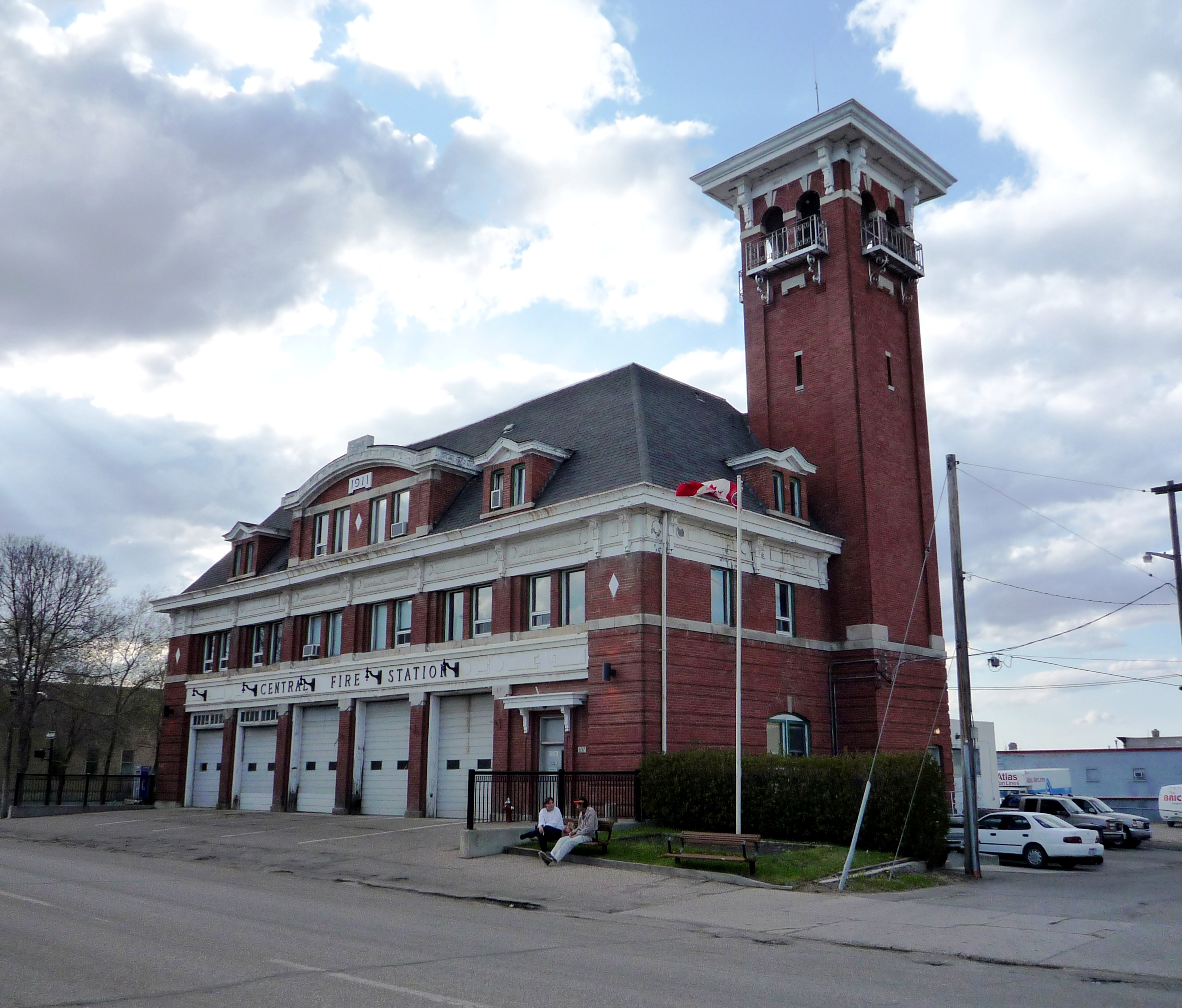 Central Fire Station, Brandon, Manitoba.